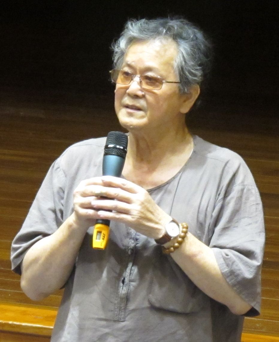 Huang Chunming, Taiwanese literary.